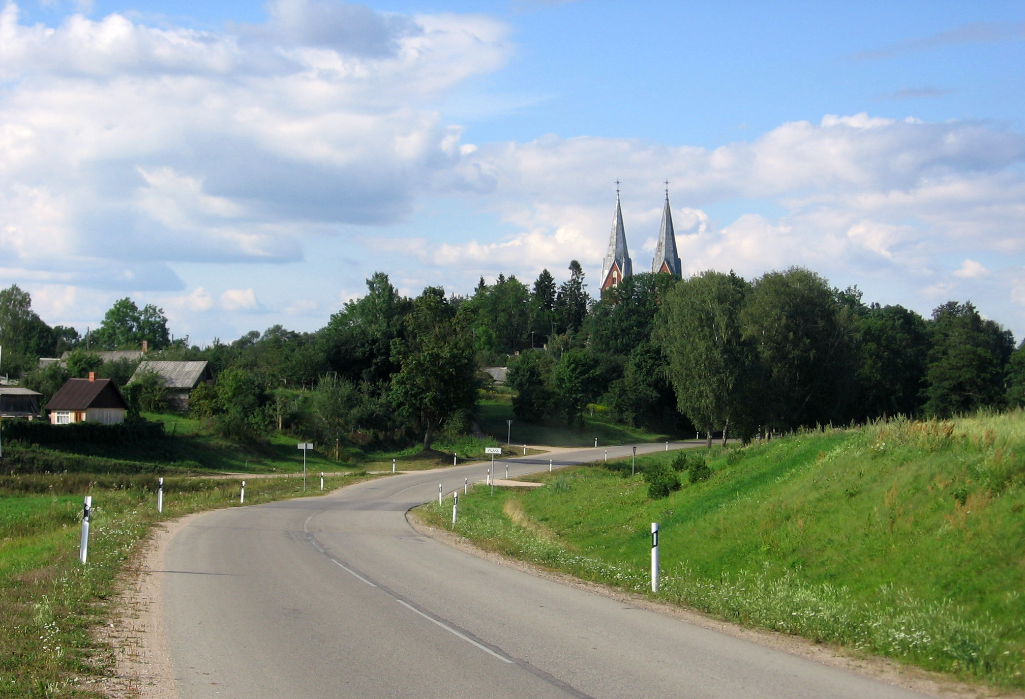 Viļaka from Semenova village, Latvia